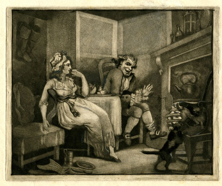 Giuseppe Grimaldi, the actor, in 1788 aged 75, depicted in a satiric print. He was the father of Joseph Grimaldi (1779-1837).